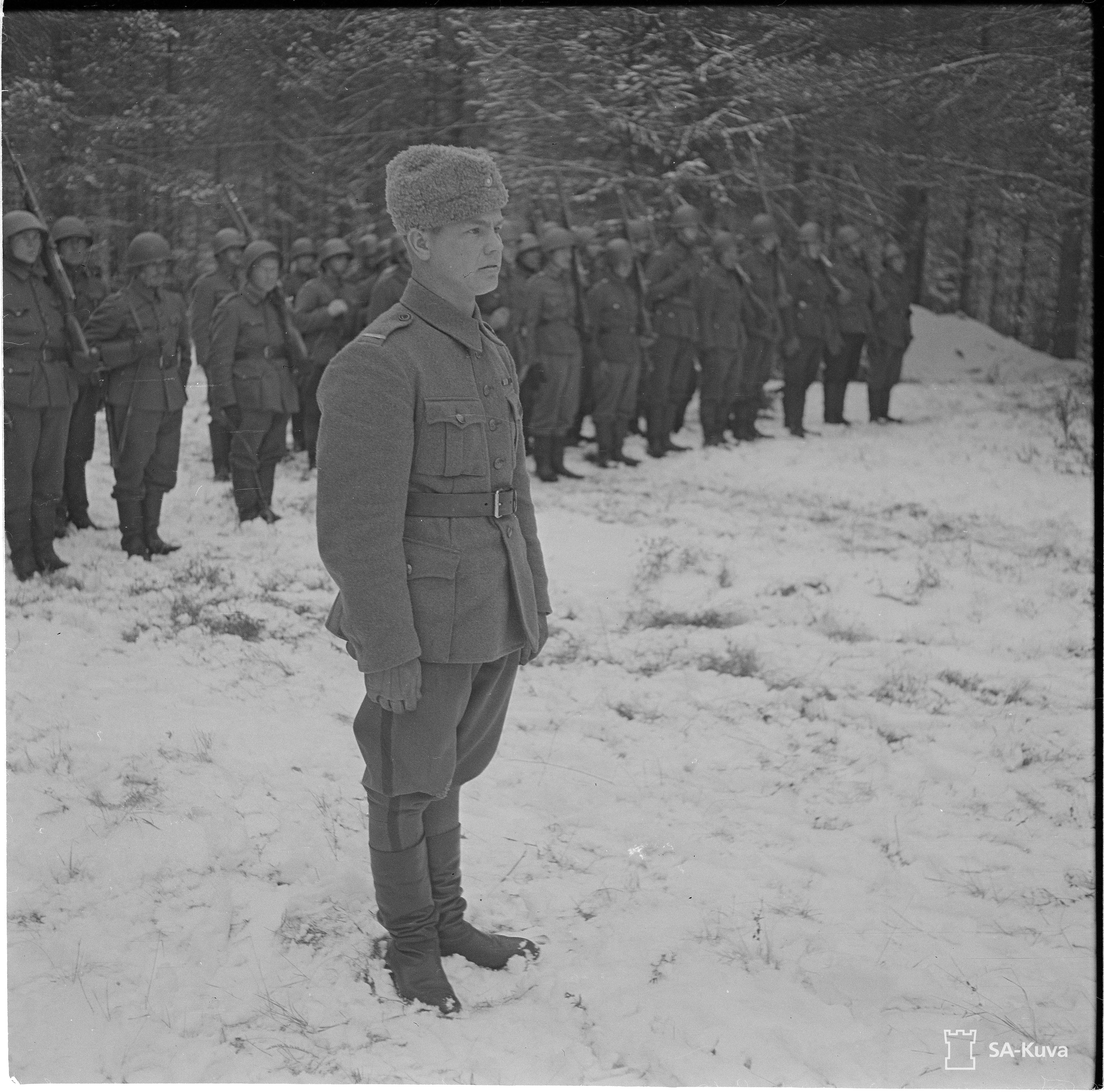 Sotamies Valdemar Kosonen kuuntelee kunniakomppanian edess virallista ilmoitusta siit, ett hnelle on annettu Mannerheimristi.